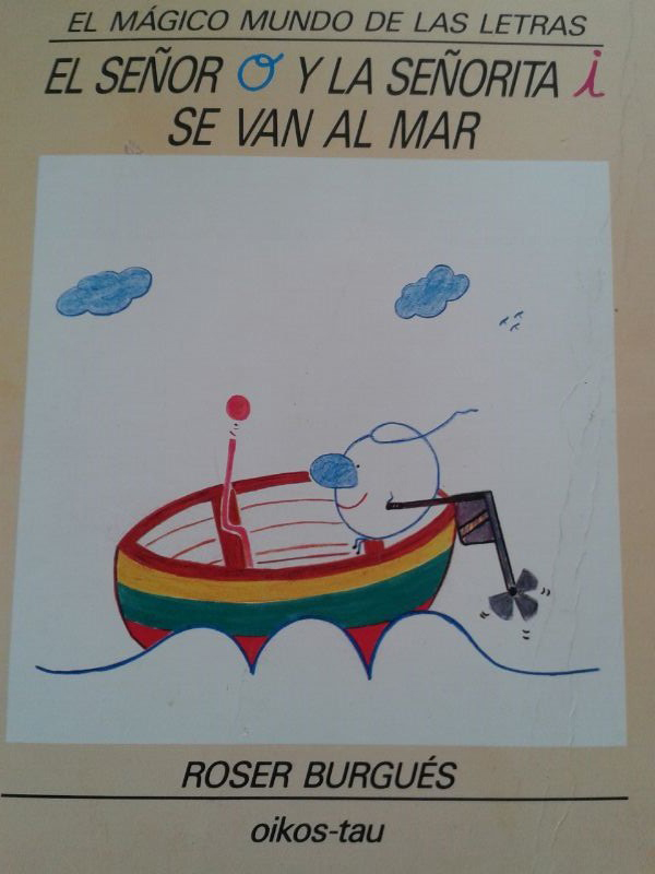 Cover of 'El señor O y la señorita I se van al mar'